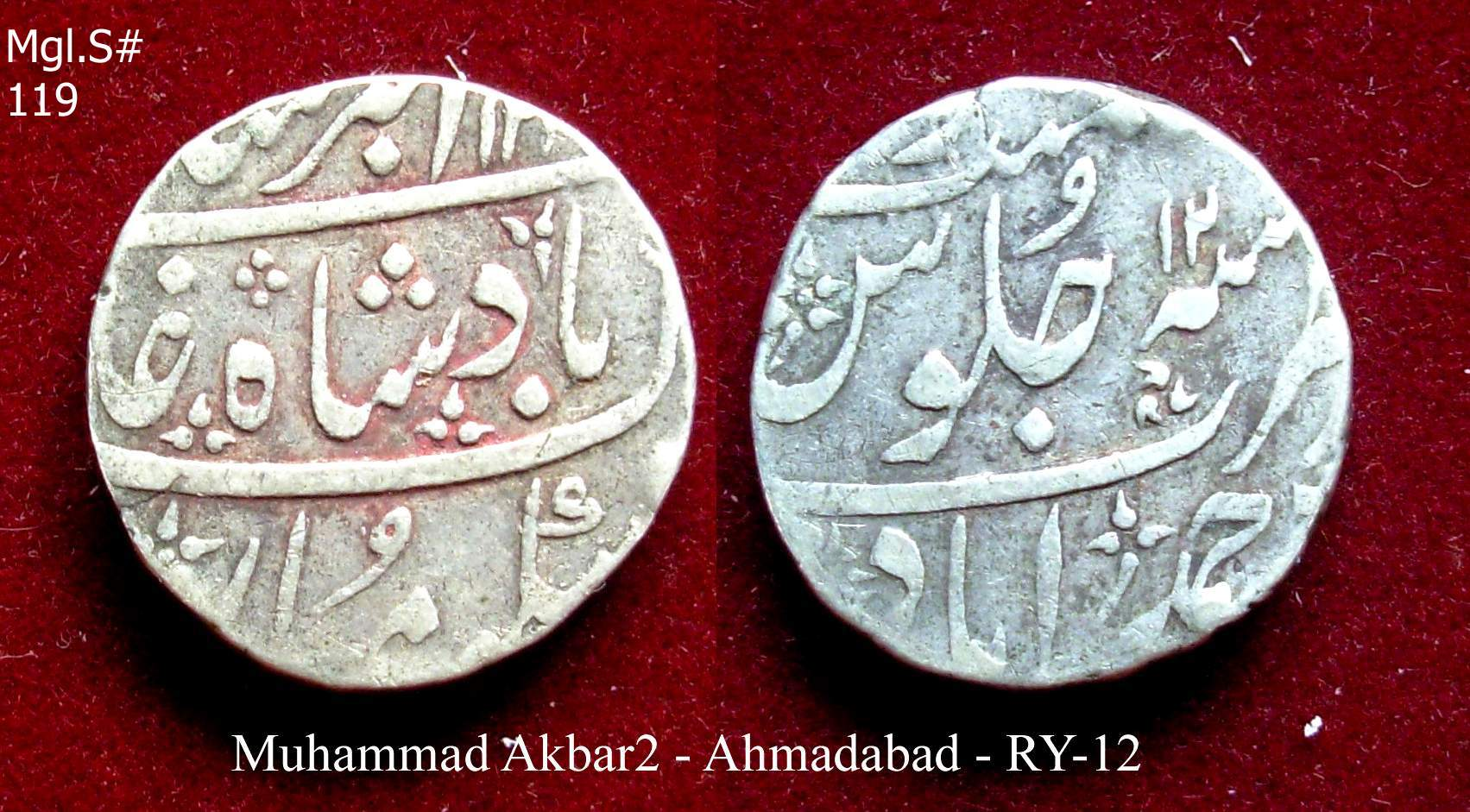 A silver rupee struck in the name of Muhammad Akbar 2.Issued probably from the state of Baroda.